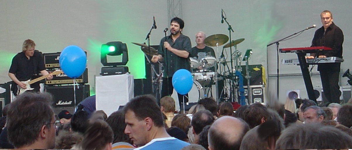 The band „Alphaville“ on the event Deutscher Evangelischer Kirchentag 2005 in Hannover, Germany